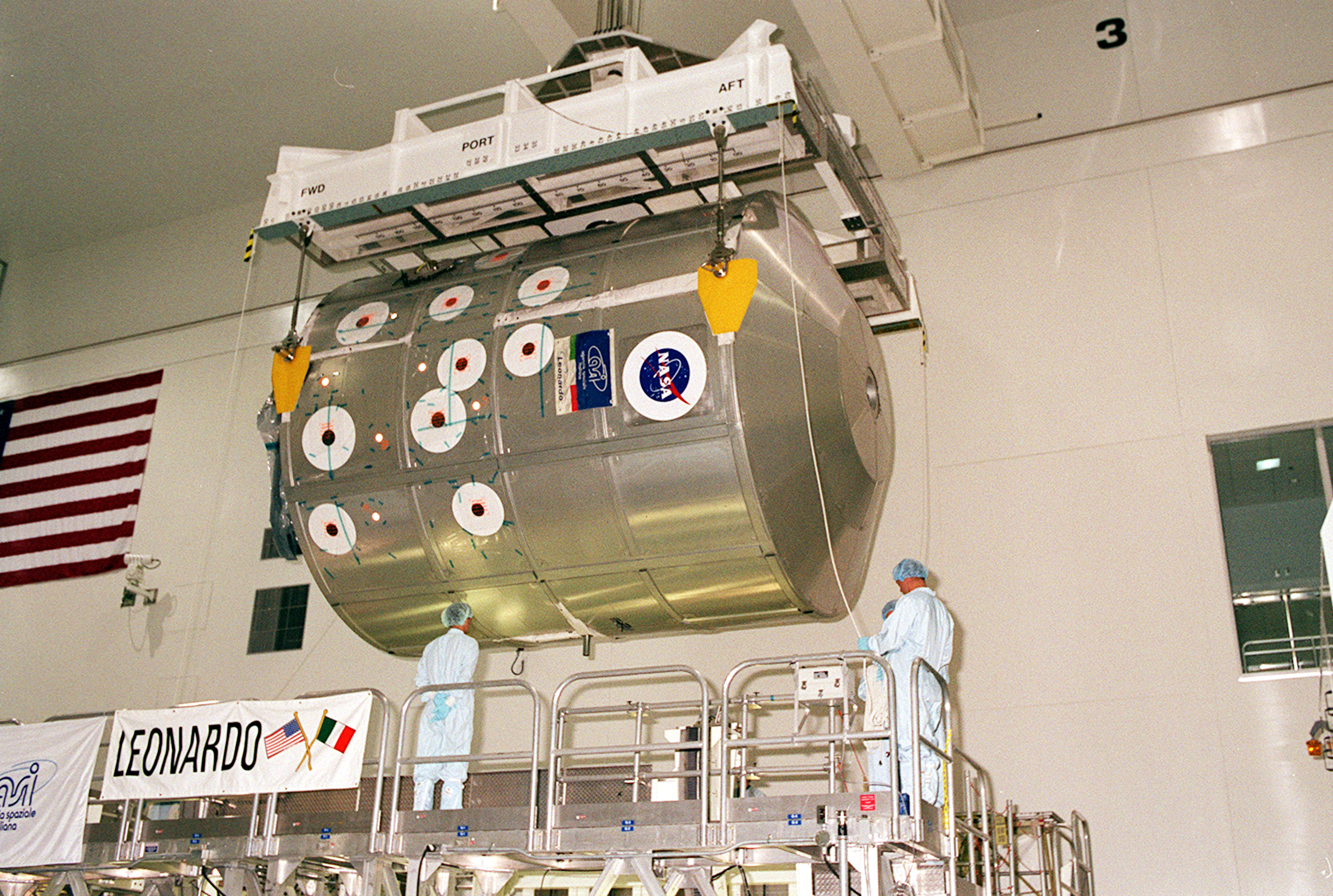 KENNEDY SPACE CENTER, Fla. -- In the Space Station Processing Facility, an overhead crane lifts the Multi-Purpose Logistics Module Leonardo from a workstand to move it to the payload canister. The MPLM is the primary payload on mission STS-105, the 11th assembly flight to the International Space Station. Leonardo, fitted with supplies and equipment for the crew and the Station, will be transported to Launch Pad 39A and installed into Discoverys [sic] payload bay. Launch is scheduled no earlier than Aug. 9.